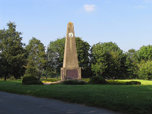 War Memorial: Leckhampstead. This memorial is on the village green, in the eastern half of the square.